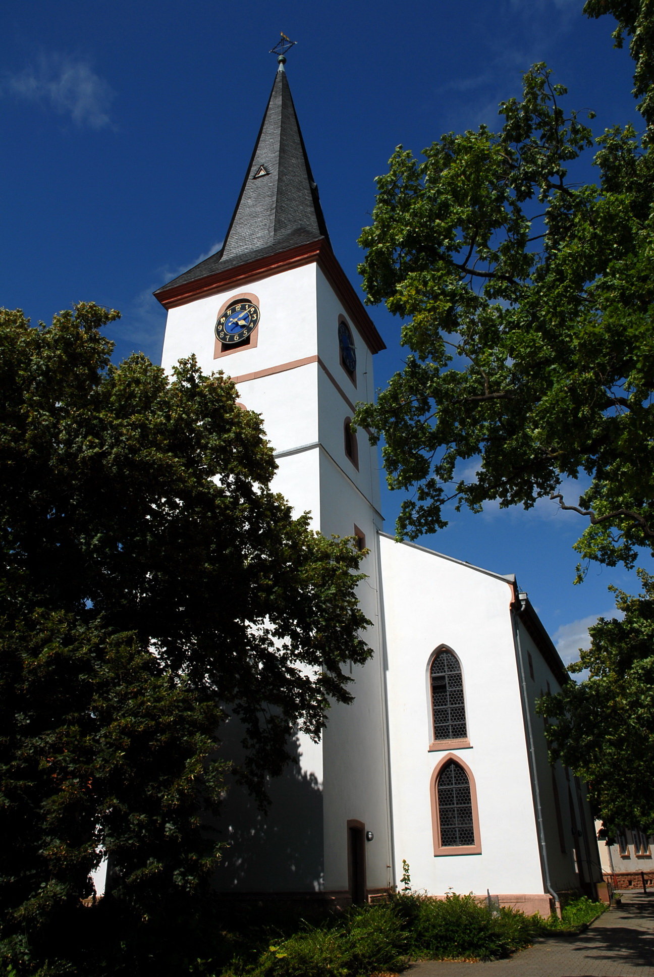 The St. Peters Church in Worms-Heppenheim.